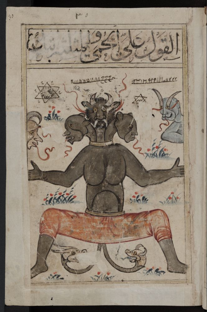 Huma, a demon. From Kitab al-Bulhan, a composite astrology/astronomy/geomancy Arabic manuscript